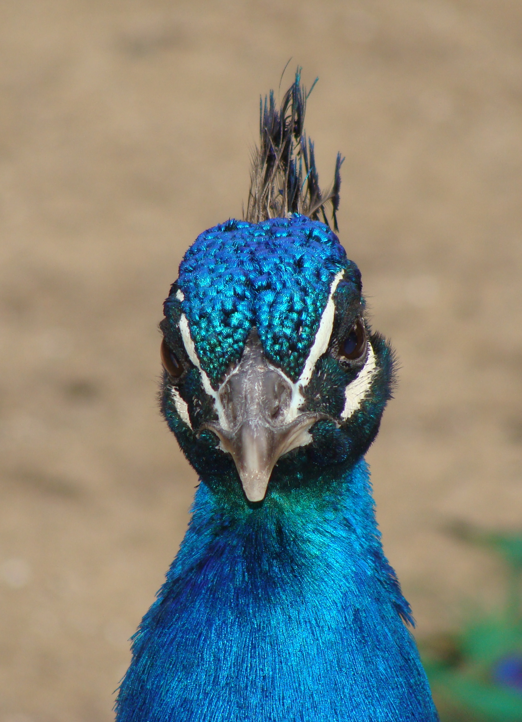 head of a blue peacock Pavo cristatus male